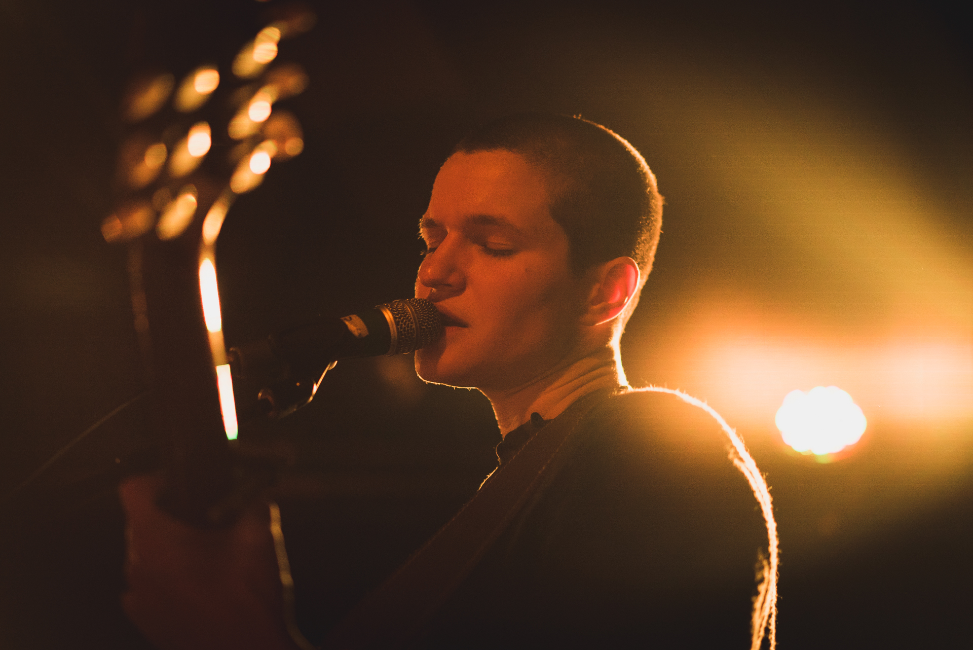 Big Thief at the Lexington